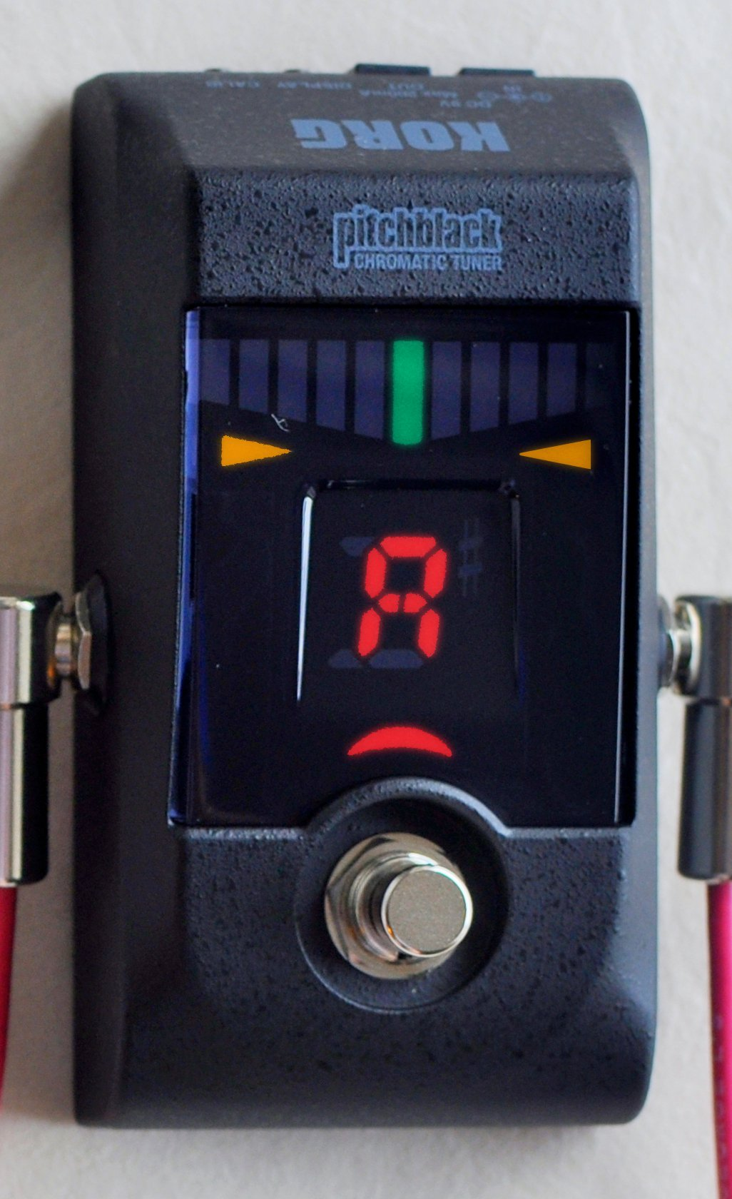 Korg Pitchblack Chromatic Pedal Tuner